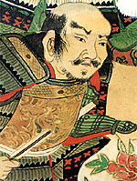 picture of Obu toramasa